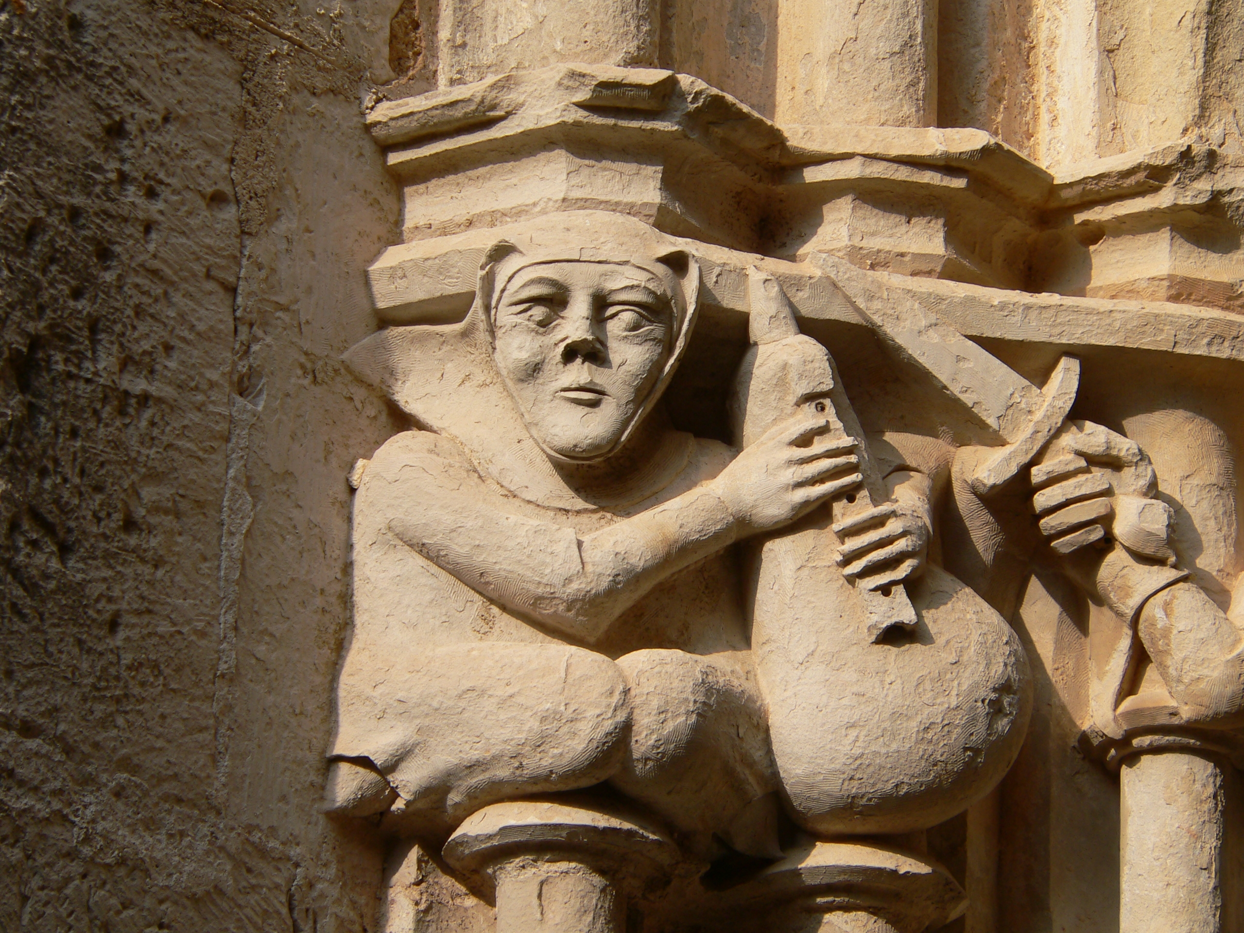 Medieval Bagpiper at Monastery of Santes Creus, Catalonia, Spain